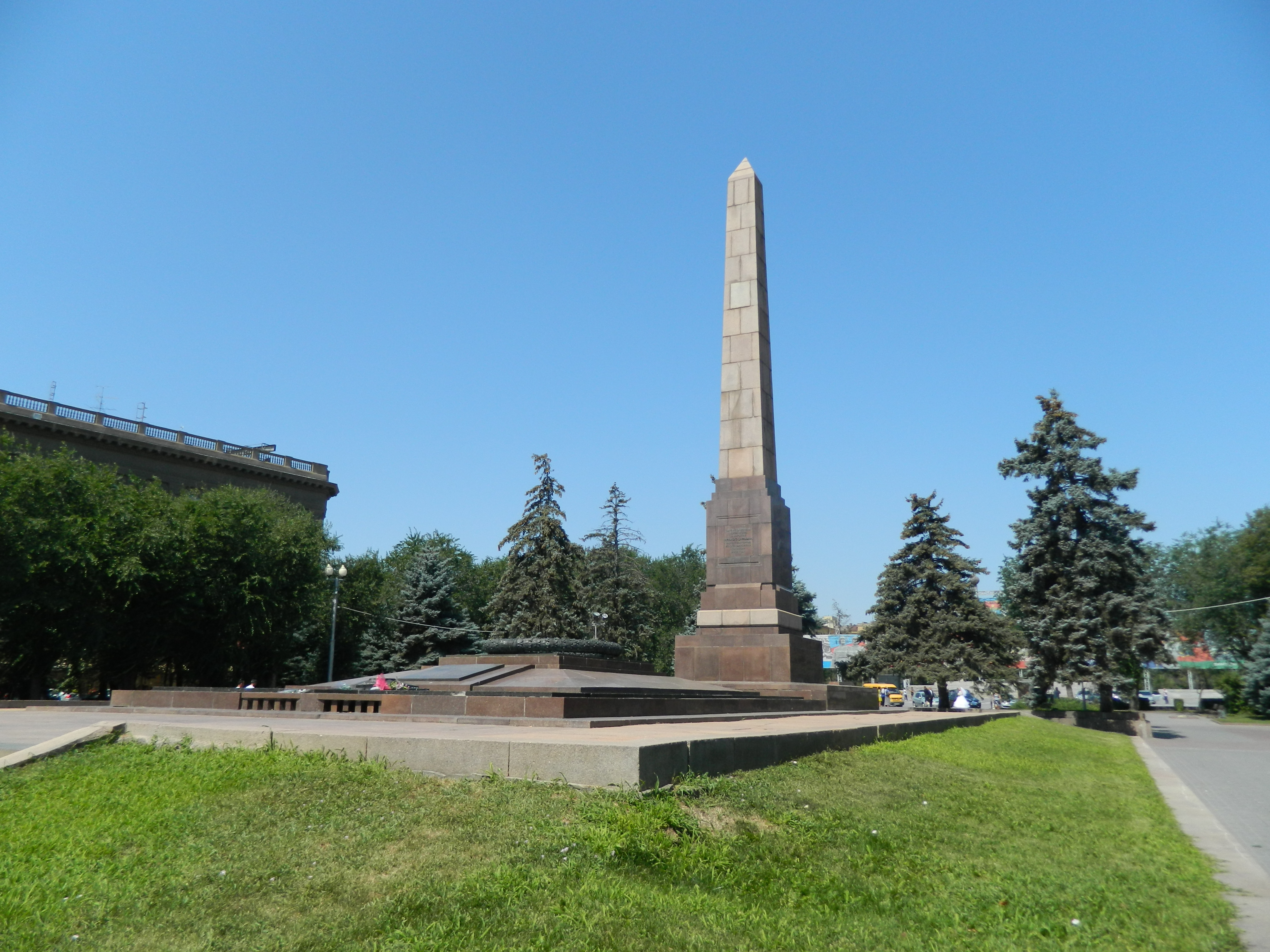 Fallen Fighters stelle and Eternal flames in Volgograd